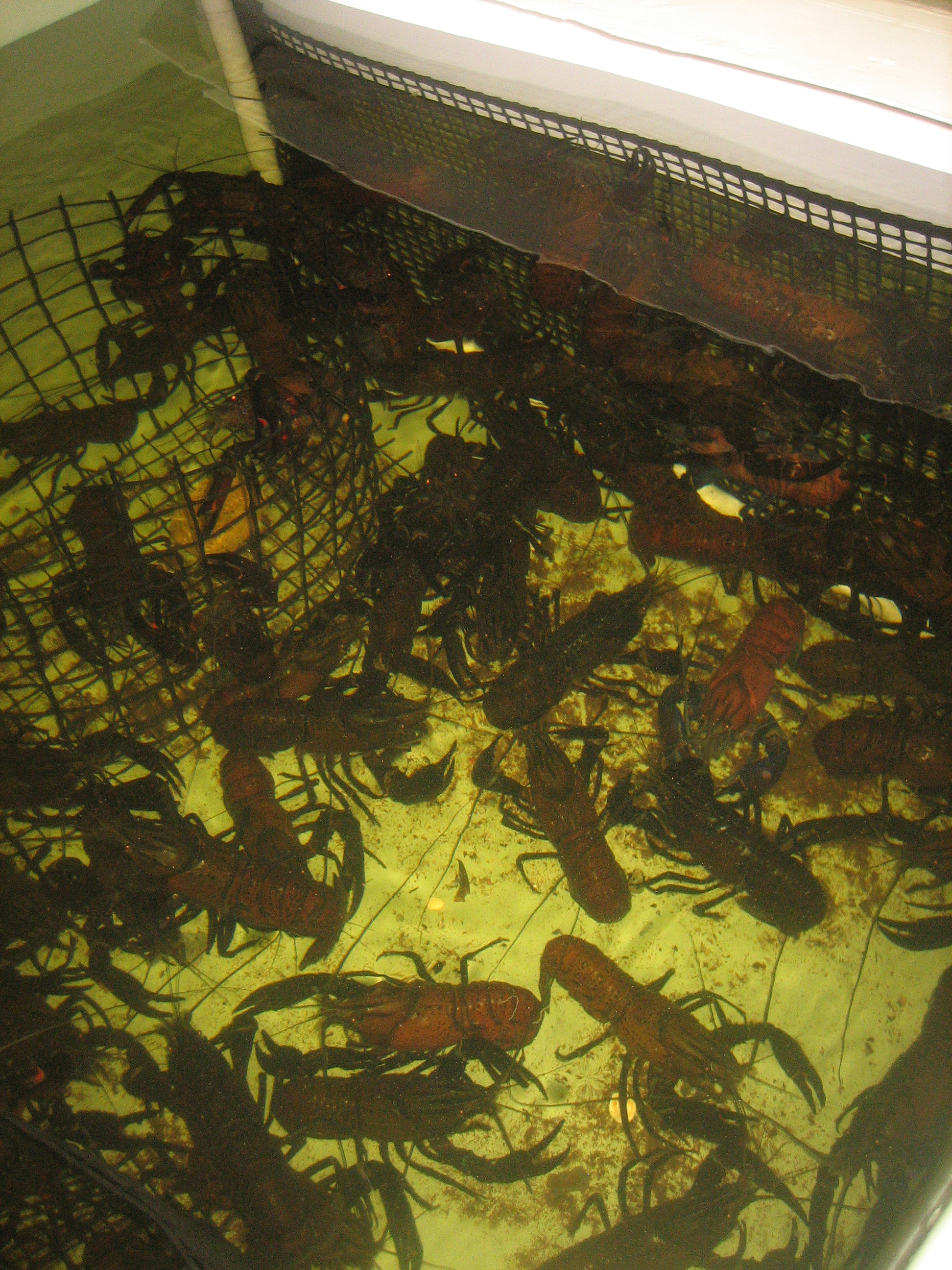 Smooth Marron in a tank on Kangaroo Island. These farmed specimens are 300g-350g in weight, about 20cm in length, and roughly 3 years old.